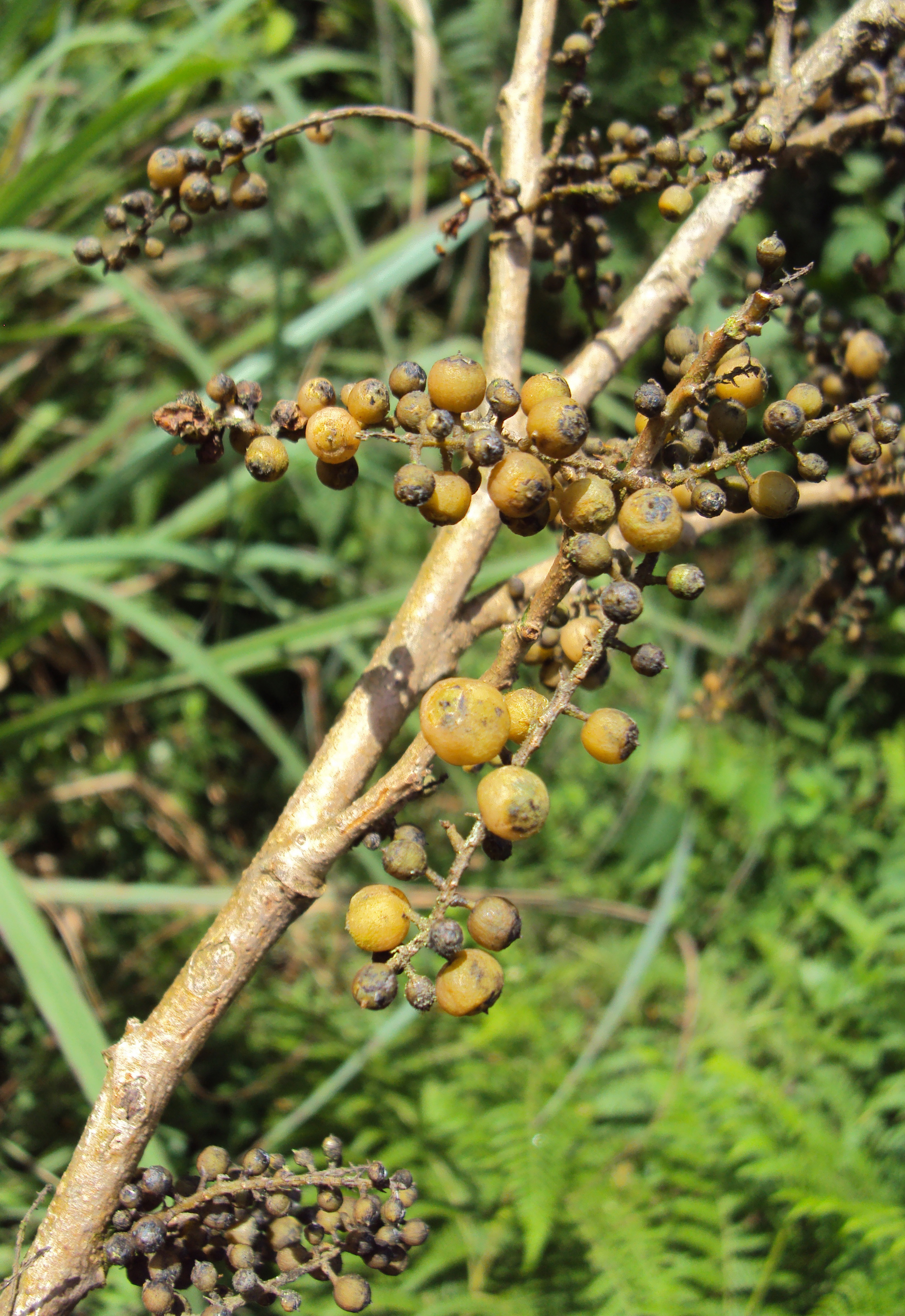 Maesa indica